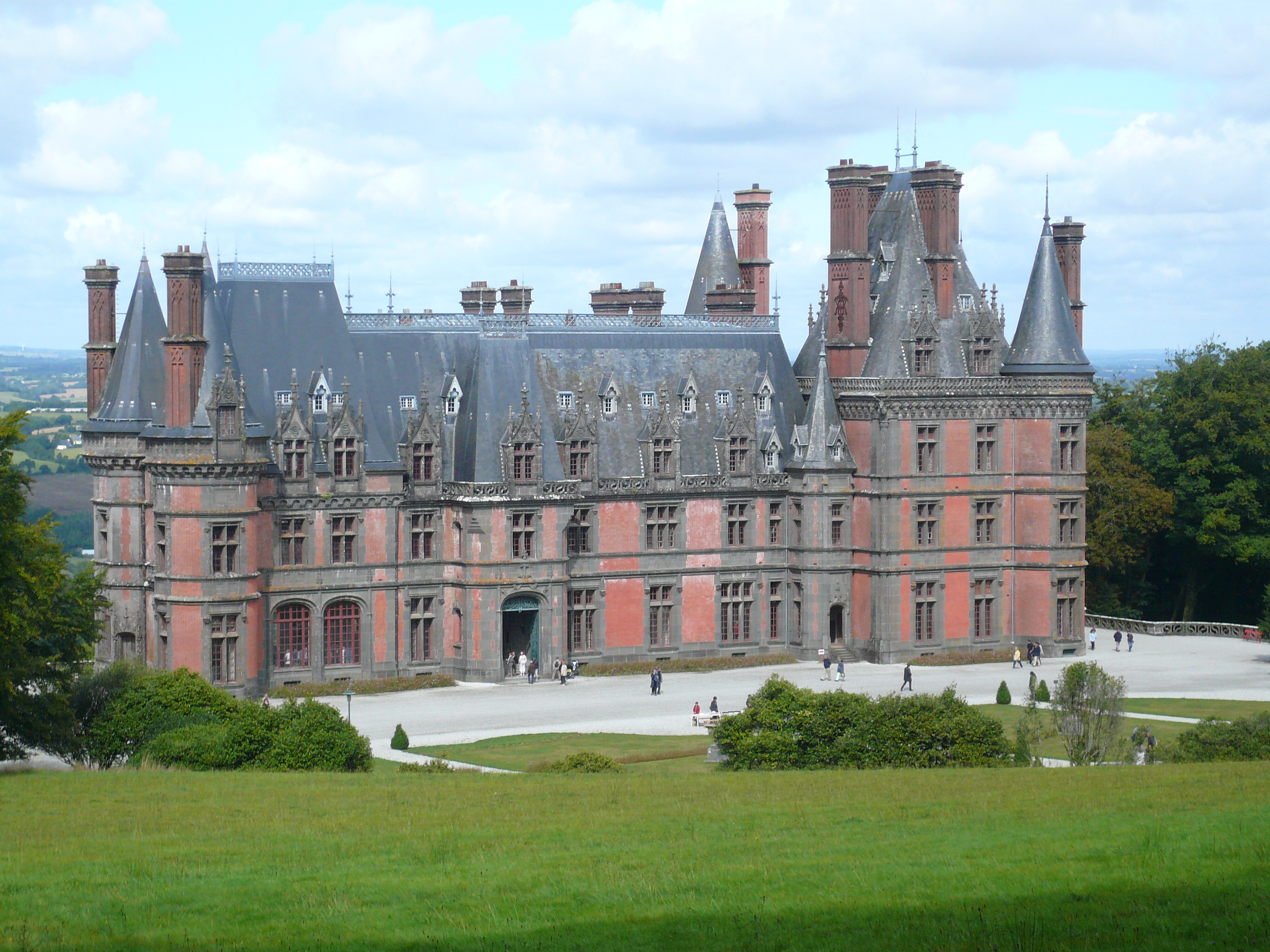 Castle Trévarez, seen from the southern end of the lawn. .